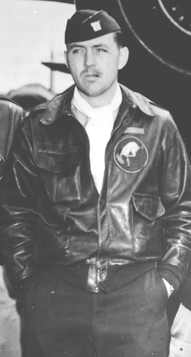 Ted W. Lawson, pilot of the "Ruptured Duck" (Crew 7) of the Doolittle Raiders